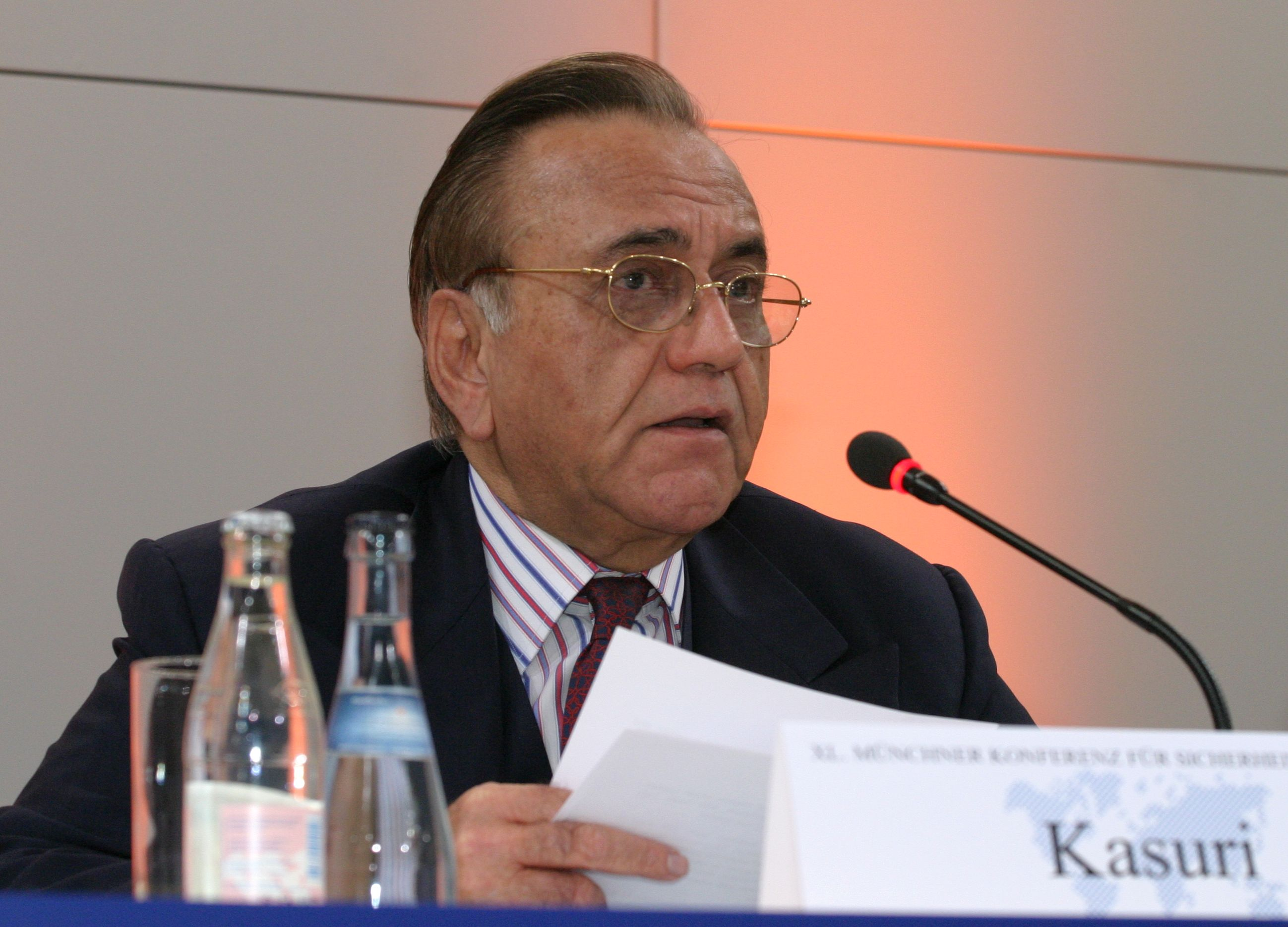 40th Munich Security Conference 2004: Mian Khurshid Mahmood Kasuri, Minister of Foreign Affairs, Islamic Republic of Pakistan.